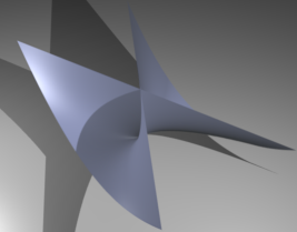 Whitney Umbrella mathematical surface